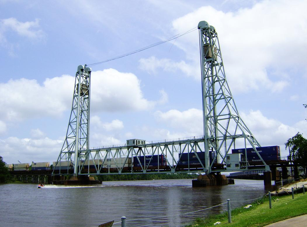 Lift truss railroad bridge over Neches River, from Riverfront Park, Beaumont, Texas, United States.